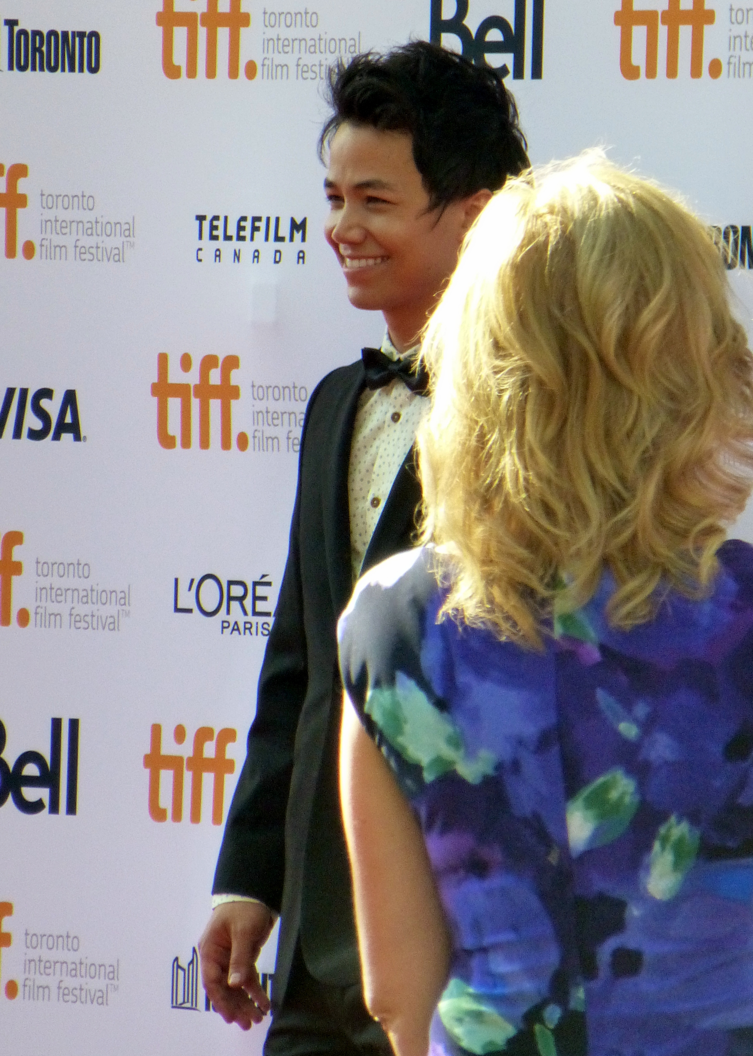 Shannon Kook at the premiere of The Drop, 2014 Toronto Film Festival